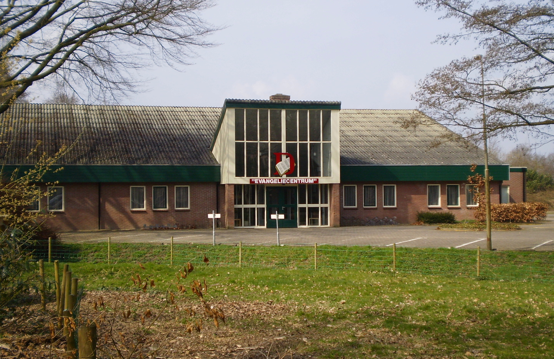 Full Gospel Church, Vaassen, the Netherlands